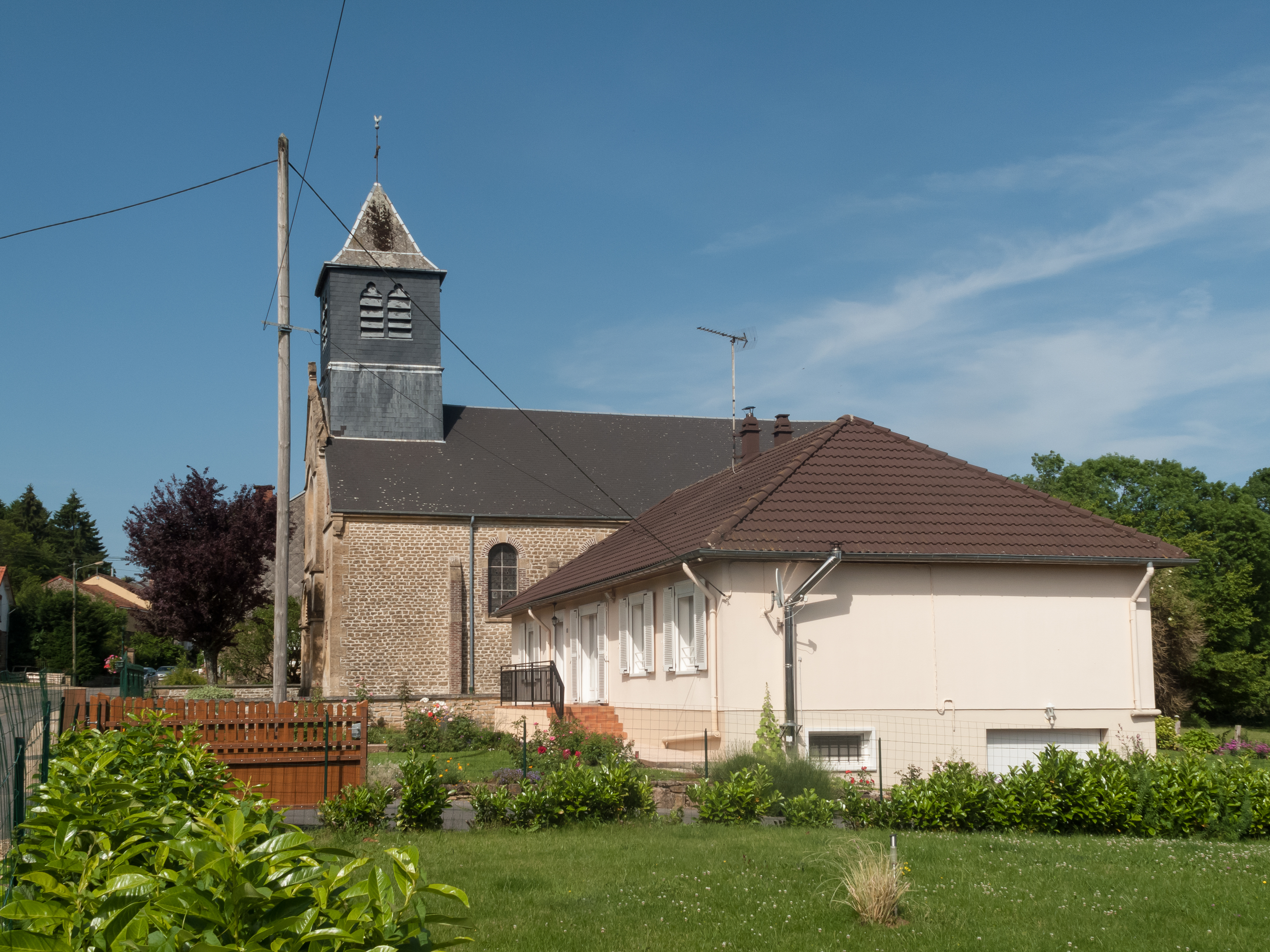 La Chapelle, church